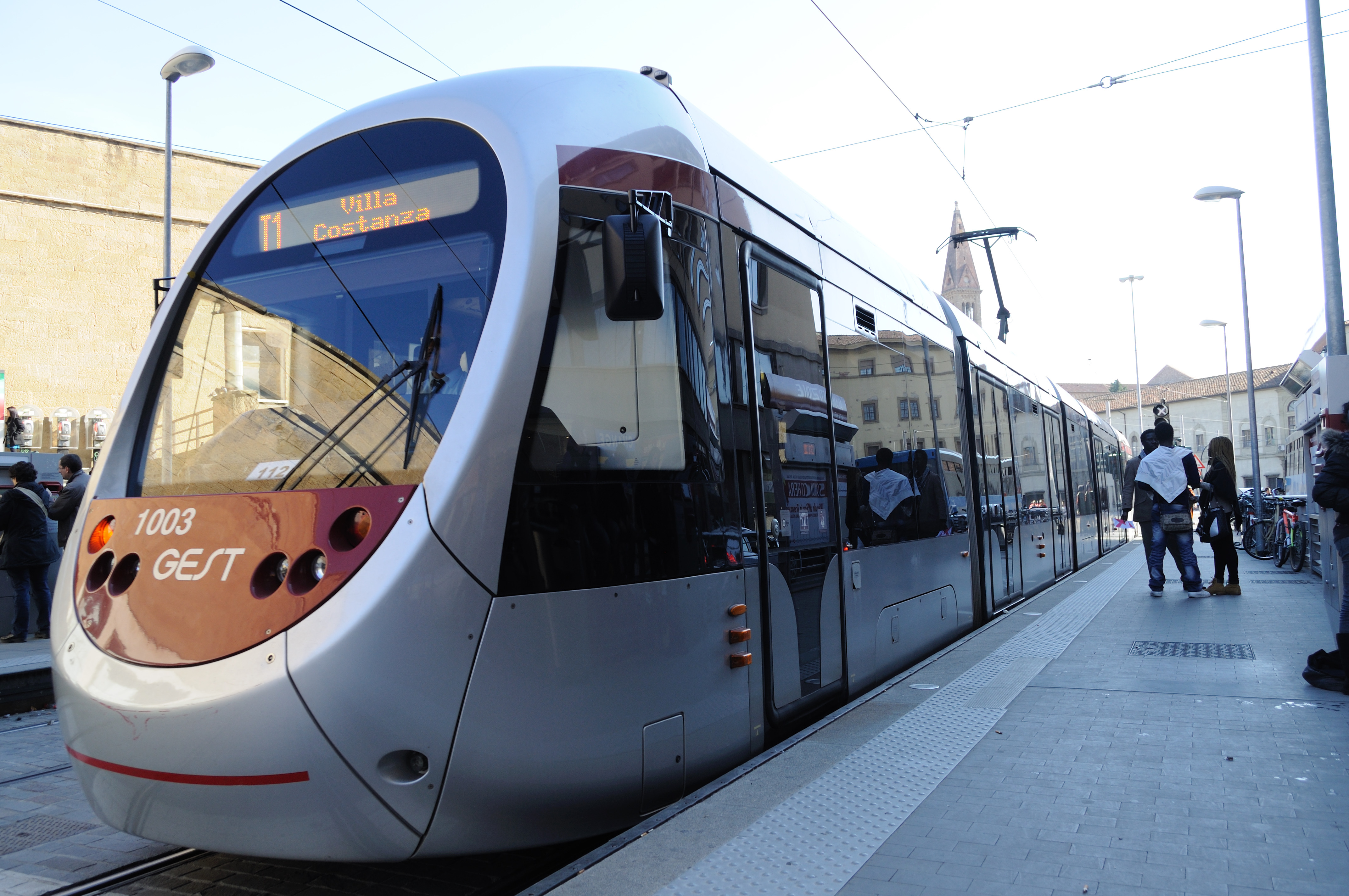 Tram of Florence.